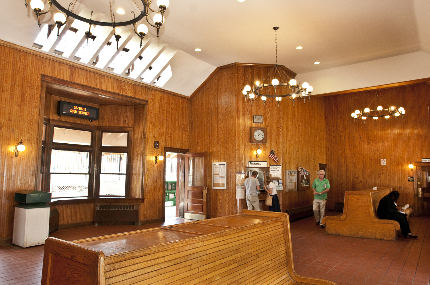 Commuters buy tickets and wait in the station house at Tarrytown. Photo by Metropolitan Transportation Authority / Patrick Cashin.